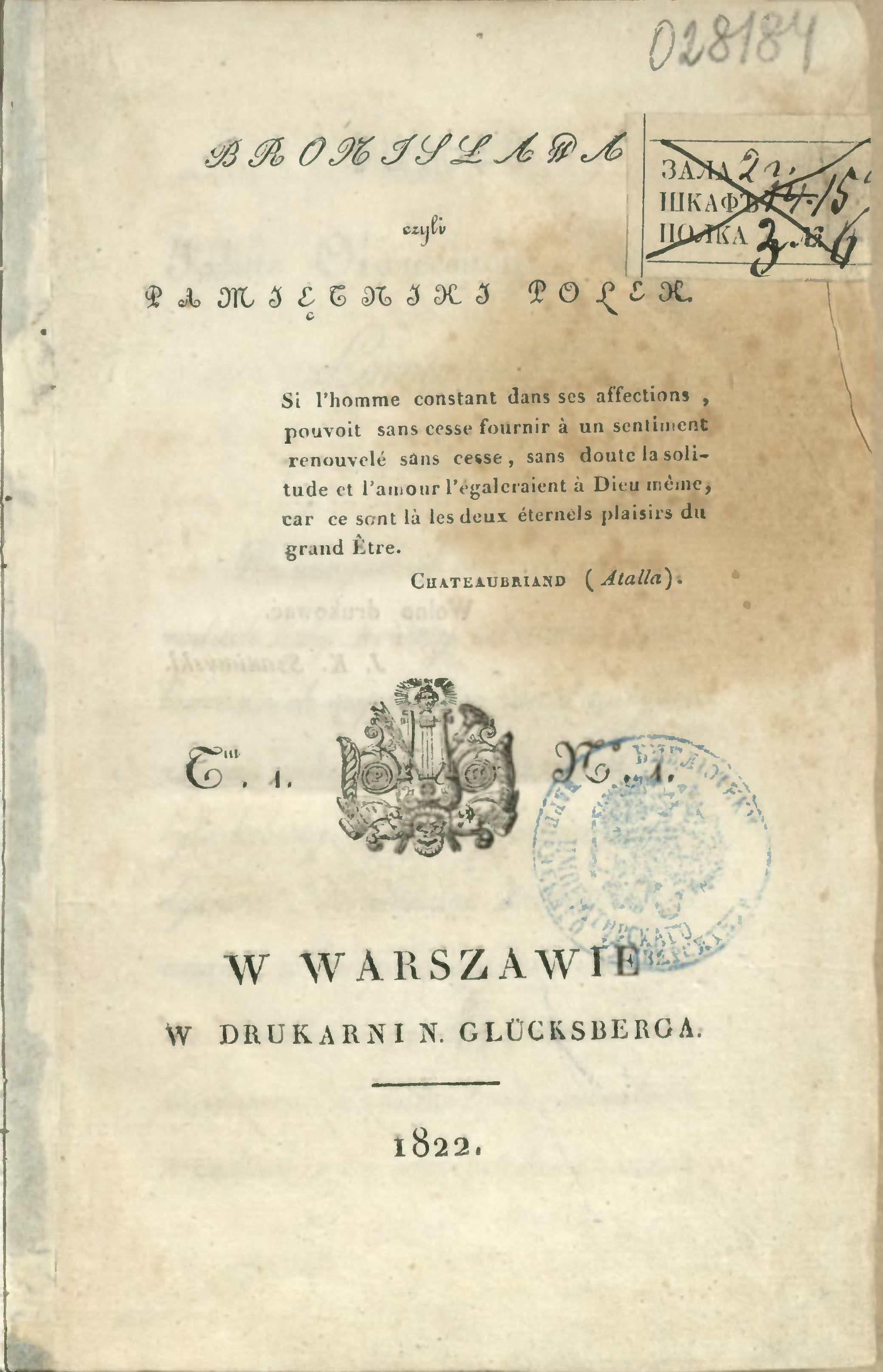 The title page of the first issue of women's magazine „Bronisława czyli Pamiętnik Polek”, Warsaw 1822, edited by Wanda Malecka (1800–1860).